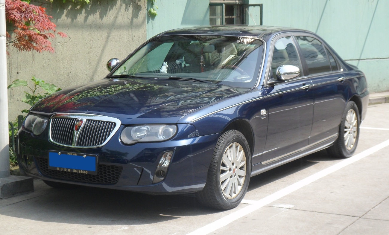 Roewe 750 photographed in Shanghai, China.